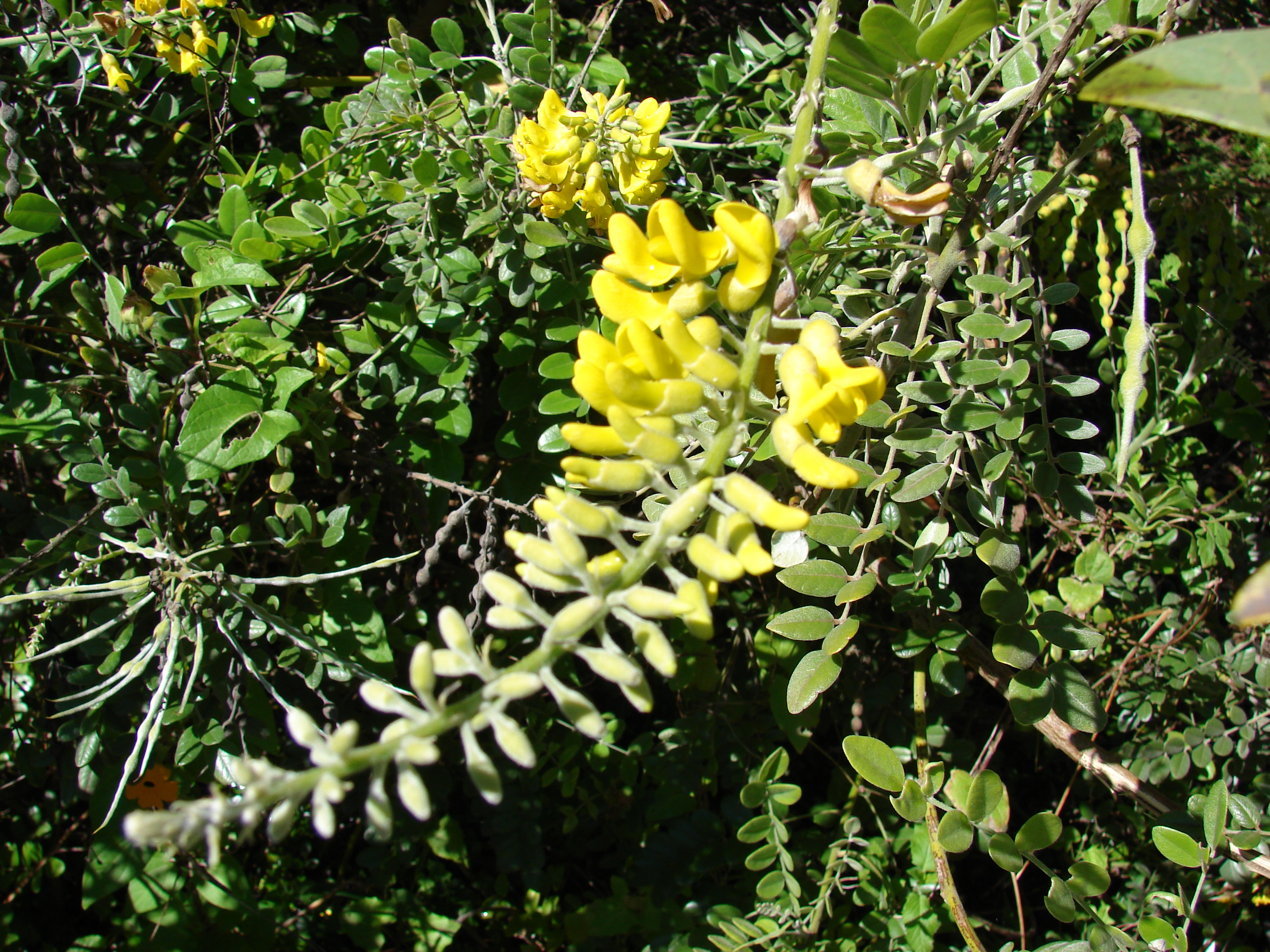 Sophora tomentosa (flowers and leaves). Location: Maui, Enchanting Floral Gardens of Kula